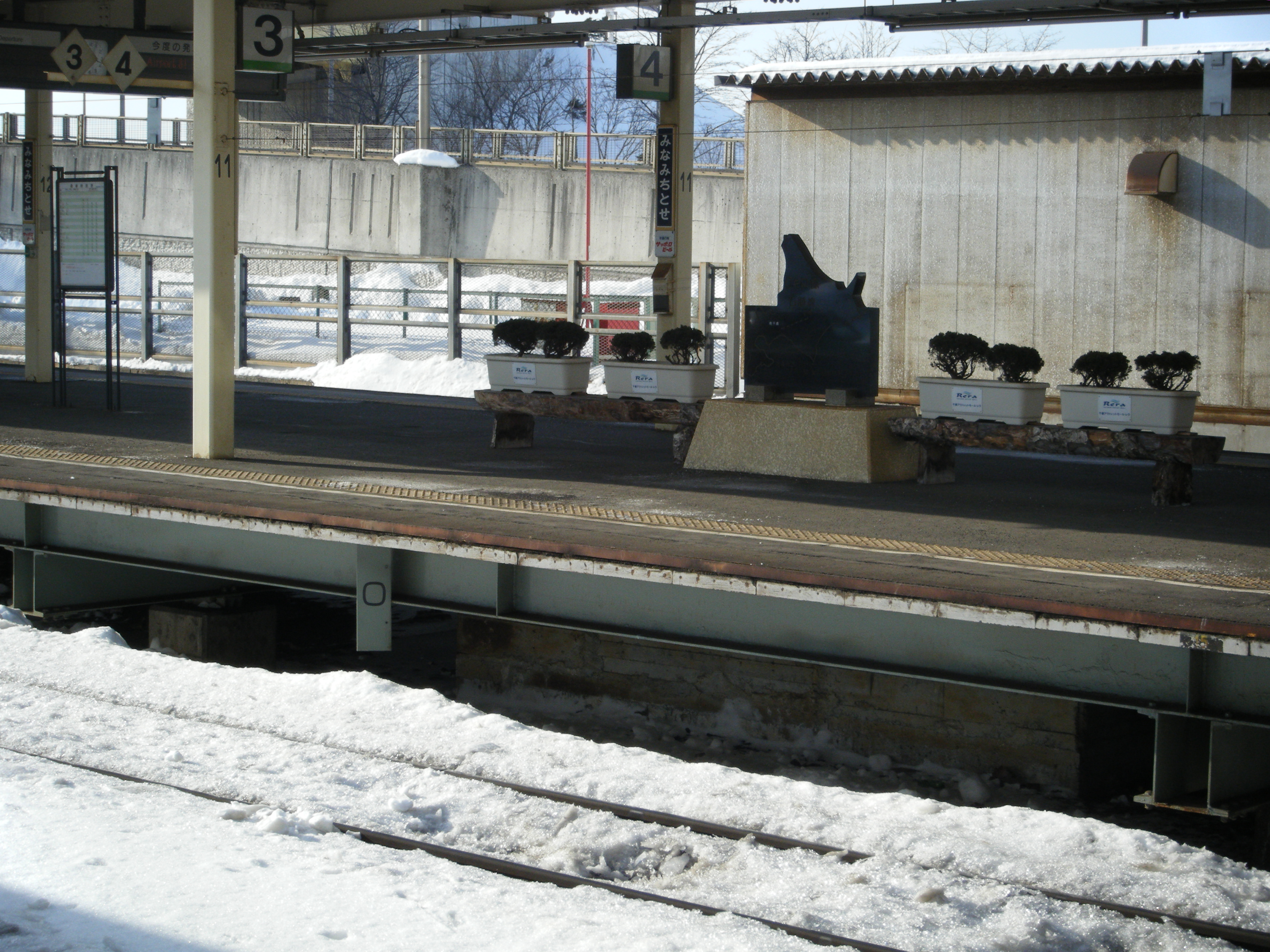 Sekisho Line 0 kilometre post at Minami-Chitose Station